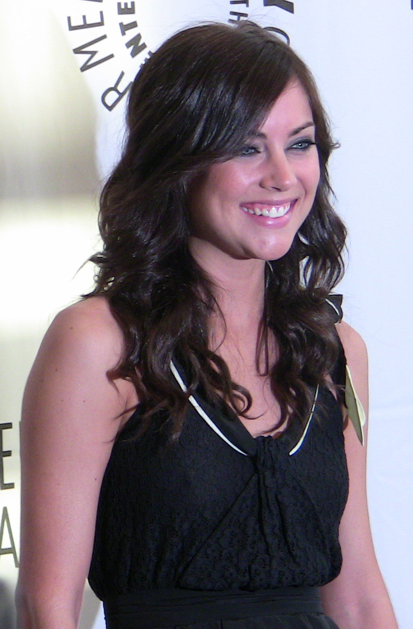 Actress Jessica Stroup at 90210 Paley Fest. William S. Paley Center, Beverly Hills, California